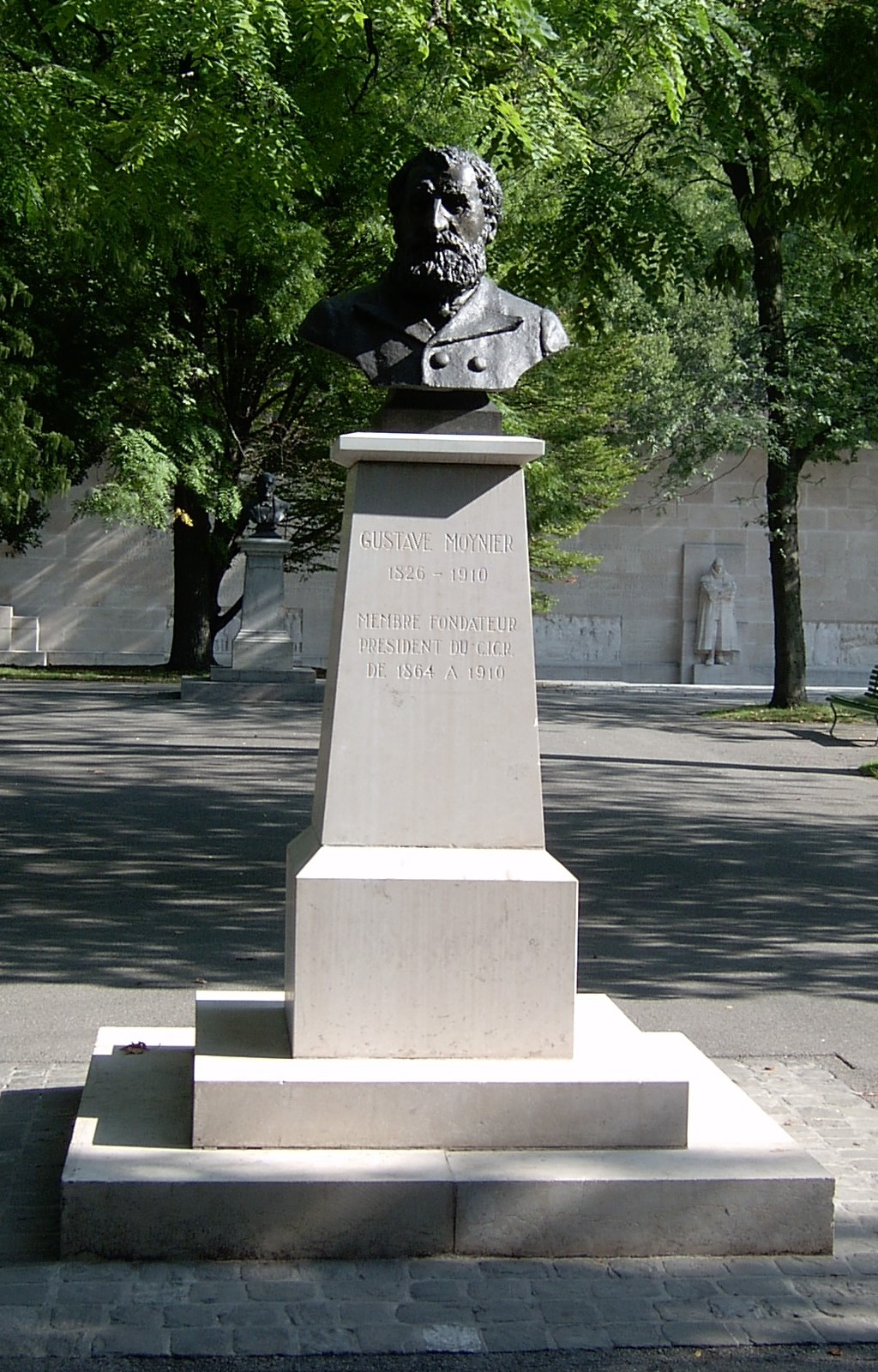 Monument to Gustave Moynier in Geneva's Parc des Bastions